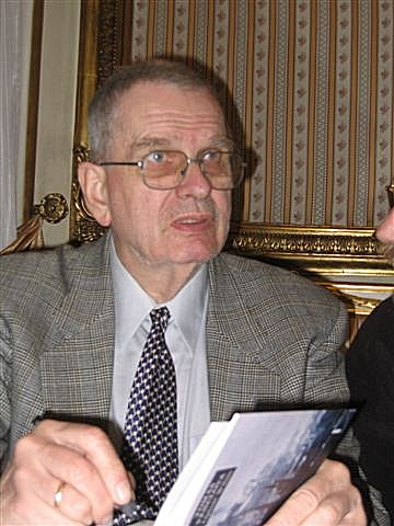 Tomas Venclova (b. 1937), Lithuanian poet and essayist